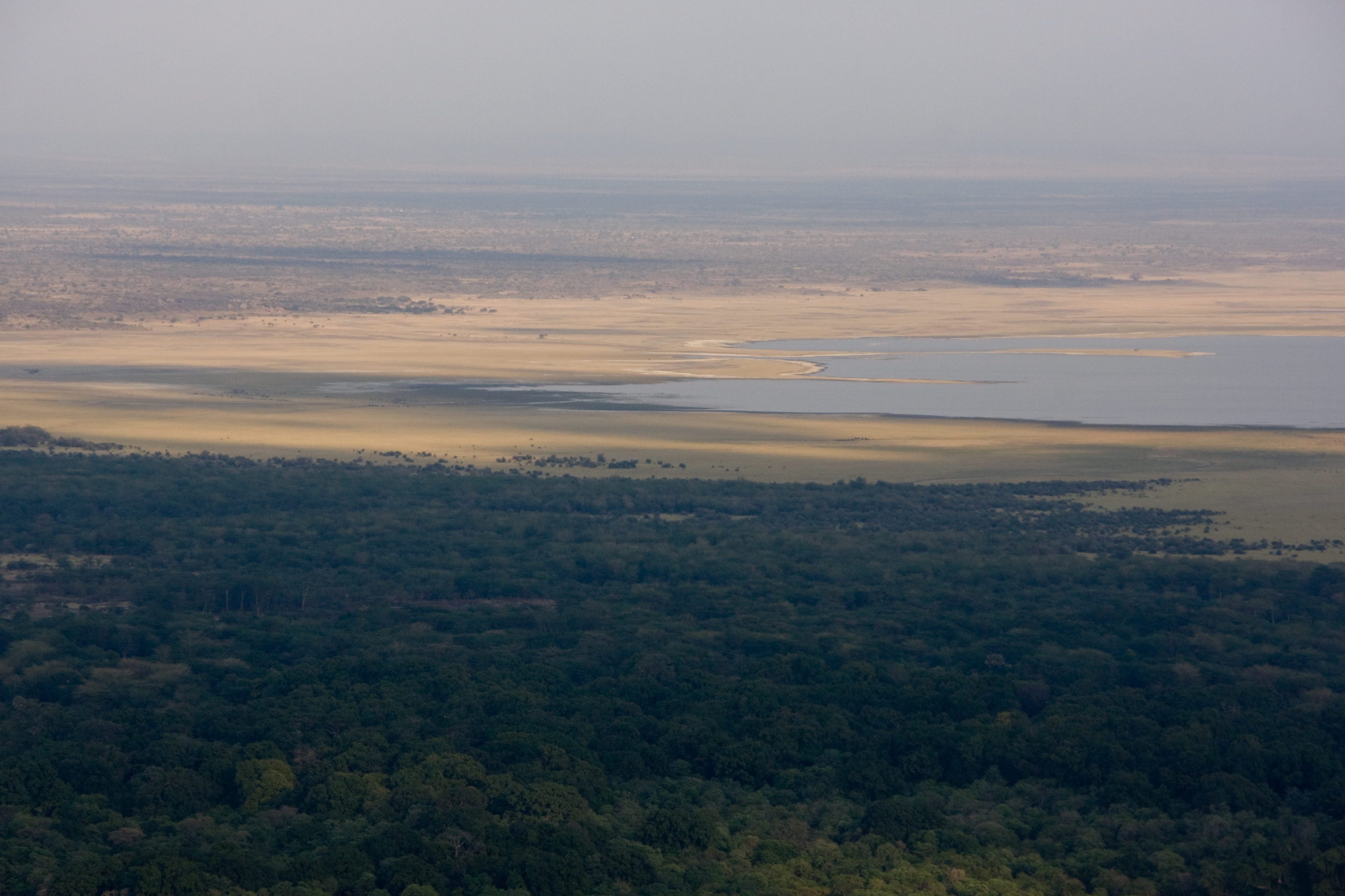 Lake Manyara, Tanzania